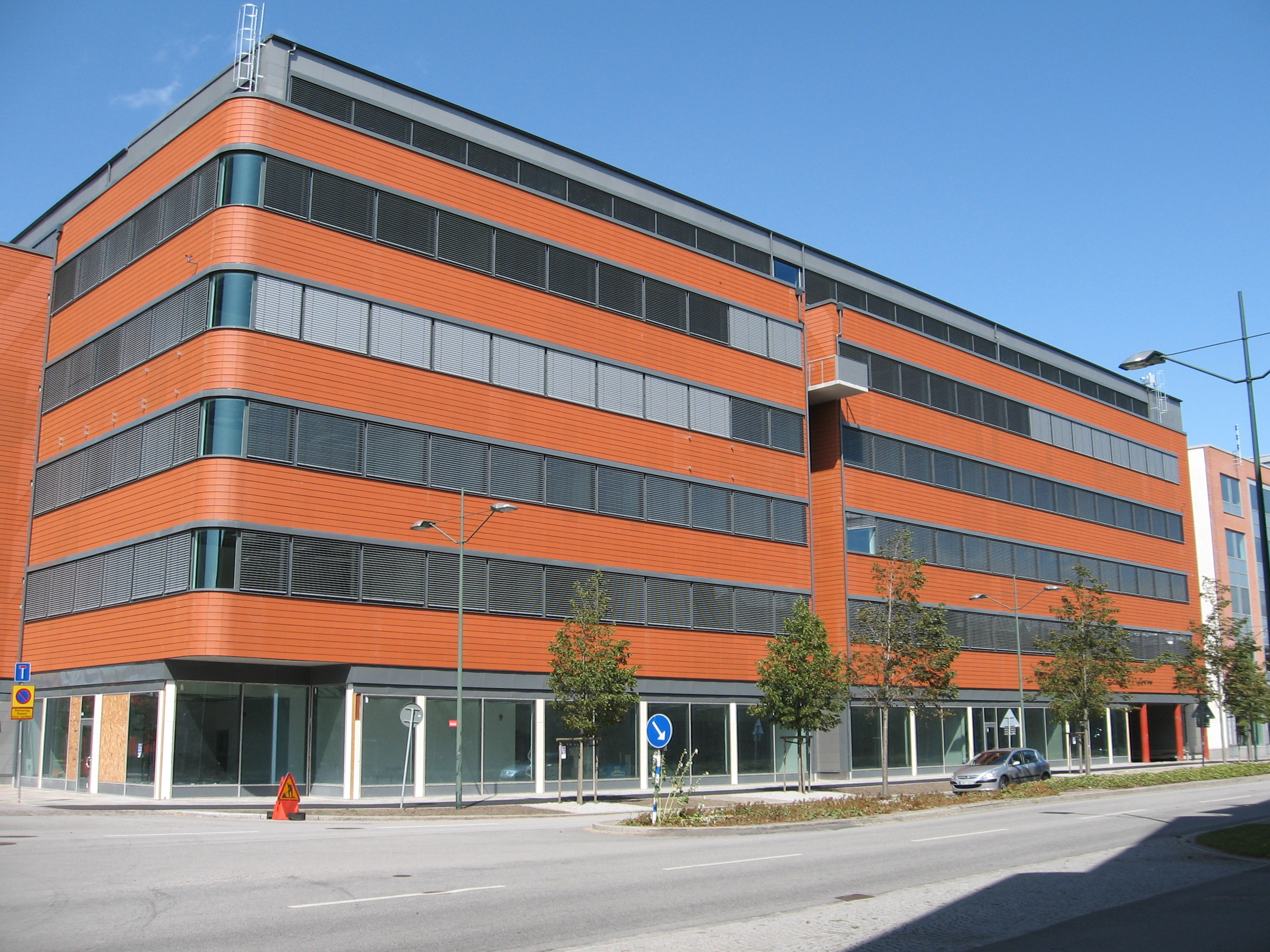 Skrovet 5 Malmö